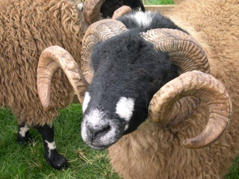 I took this picture at the Wensleydale show a couple of years ago. I really like the horns. Not too sure what breed it is though